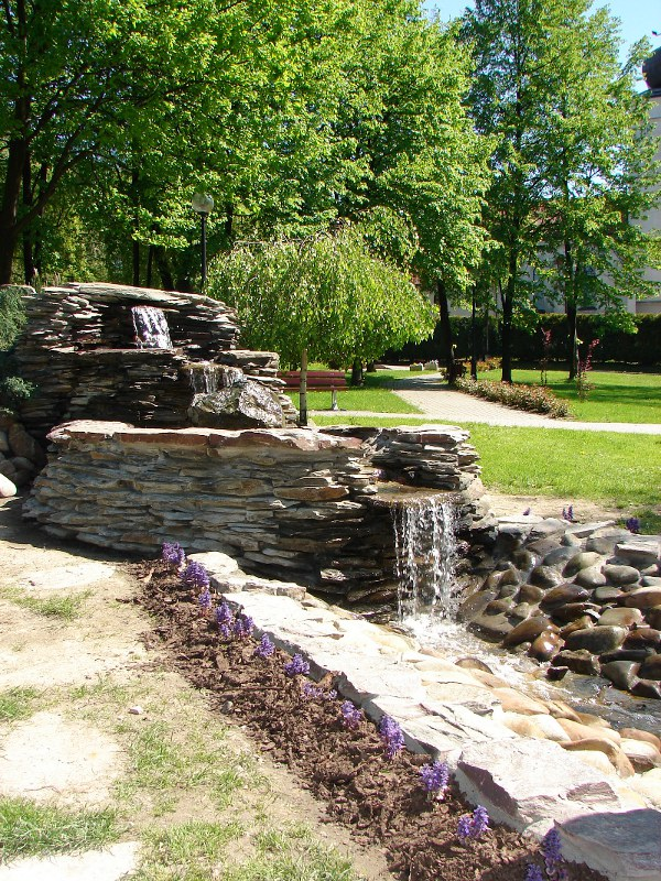 Fountain in Pawłowice